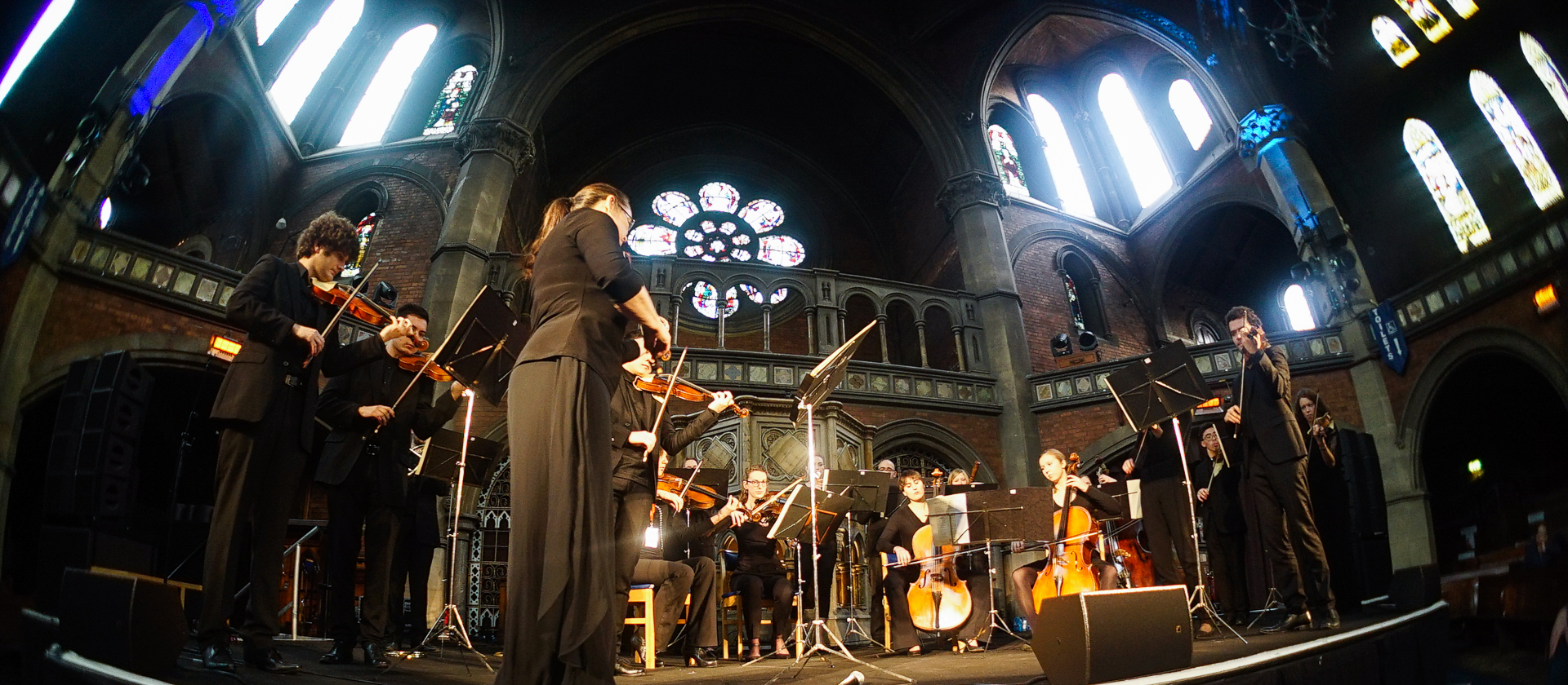 Daylight Music 212 - Orchestra of the Age of Enlightenment Experience Ensemble